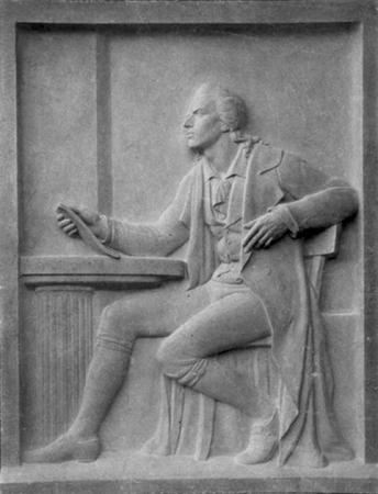 Schiller monument (detail)